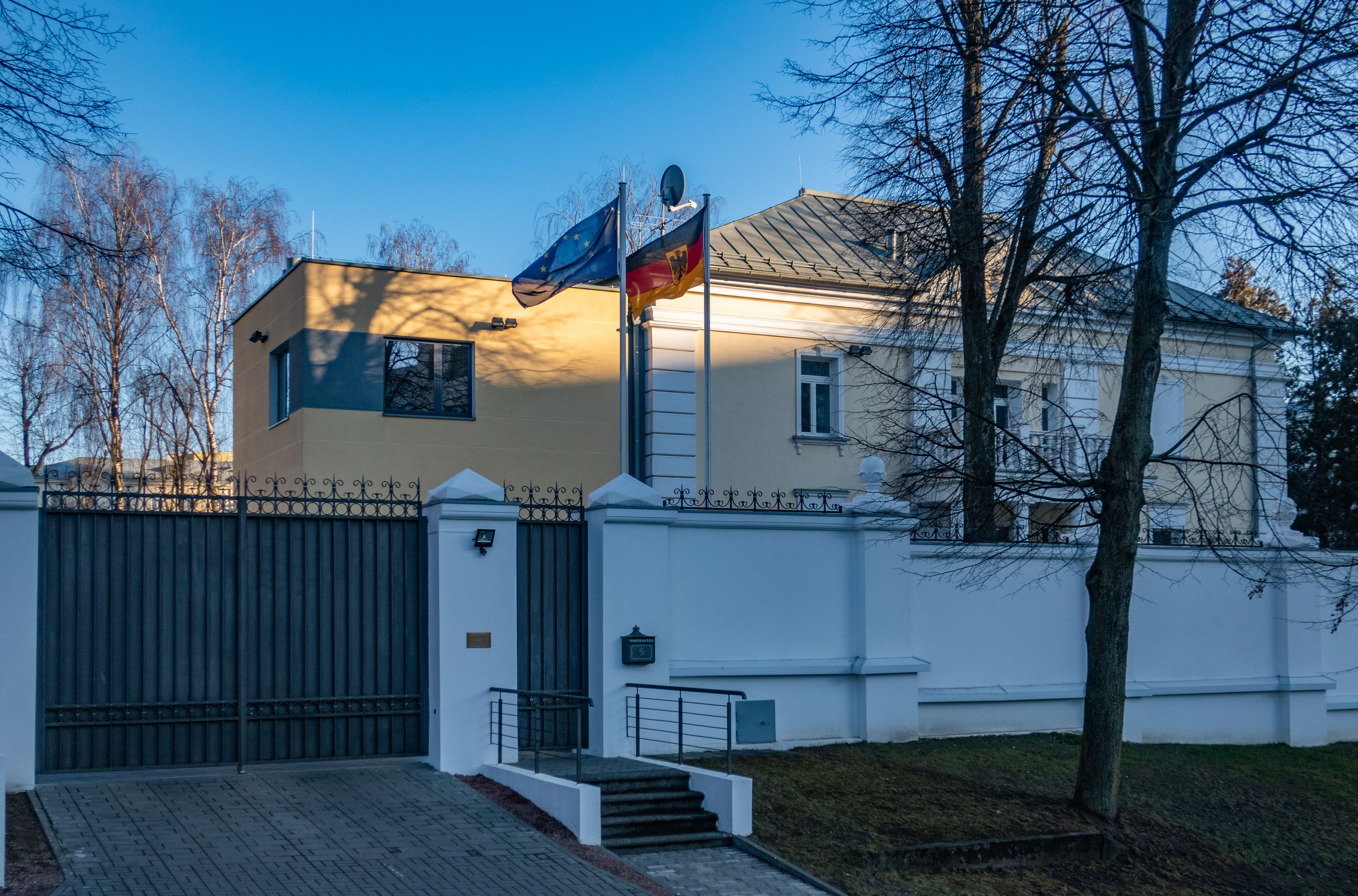 Embassy of Germany in Belarus. Minsk, Belarus